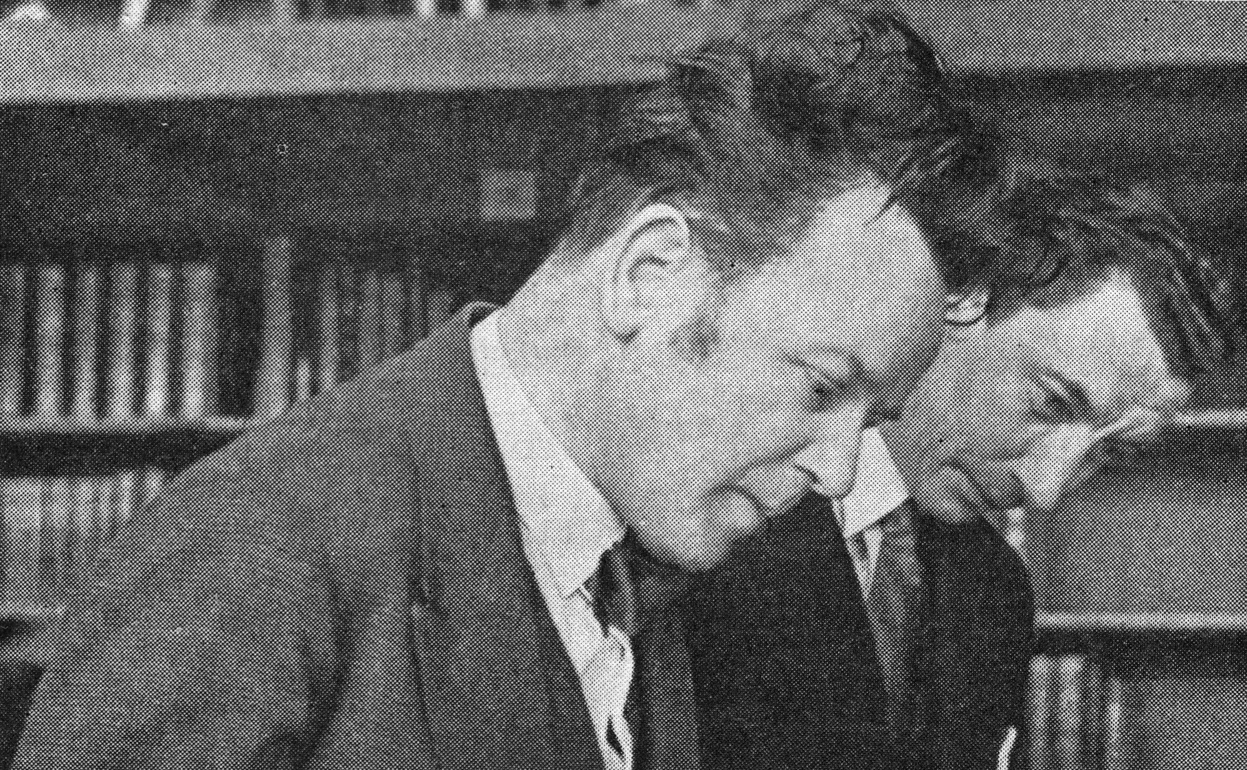 Swedish author Erik Lindorm oversees book production with his co-worker, actor Olle Hilding.